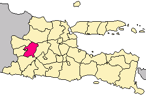 Madiun county in East Java province, Indonesia